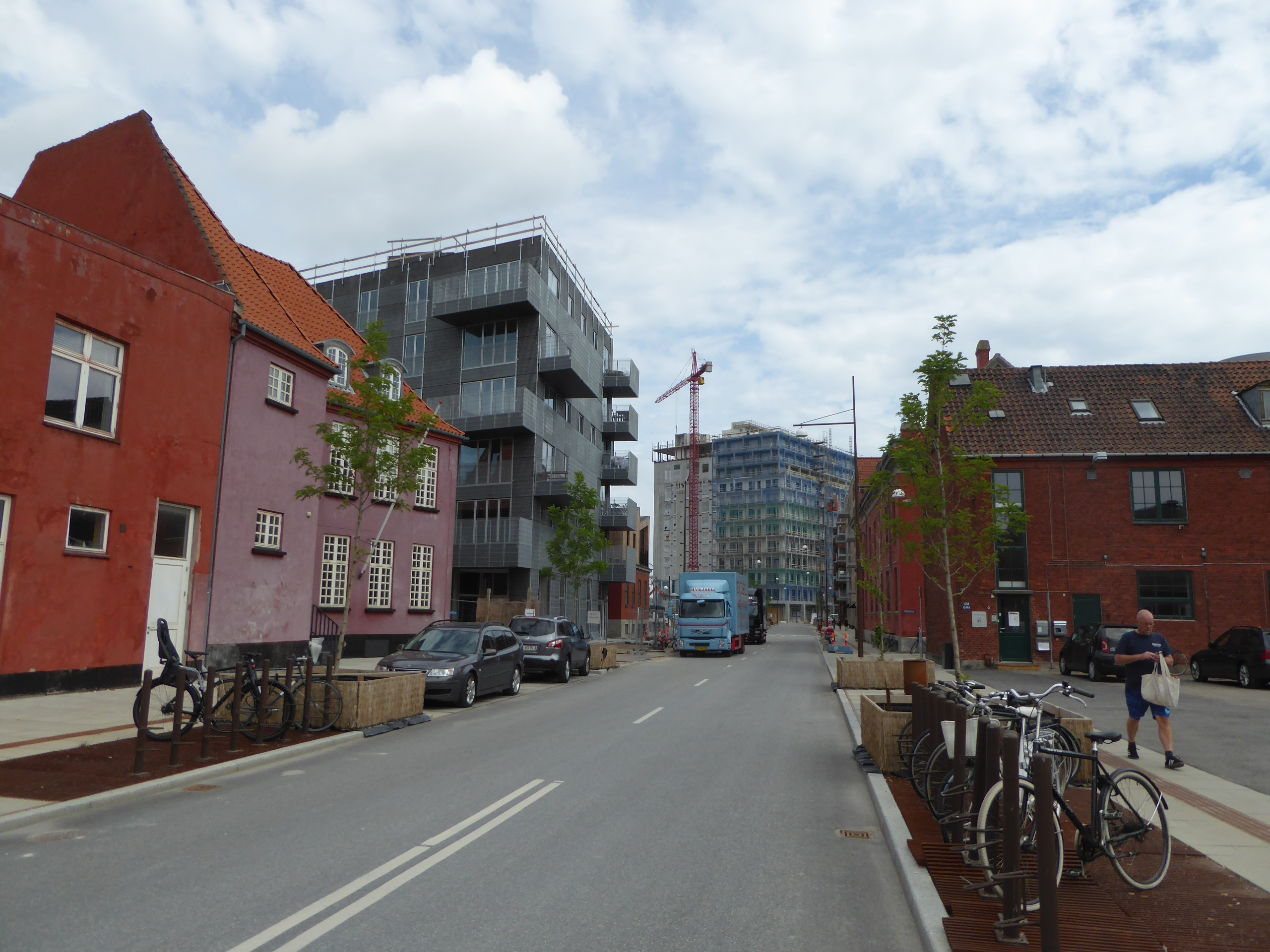 The street Århusgade in Nordhavn in Copenhagen.